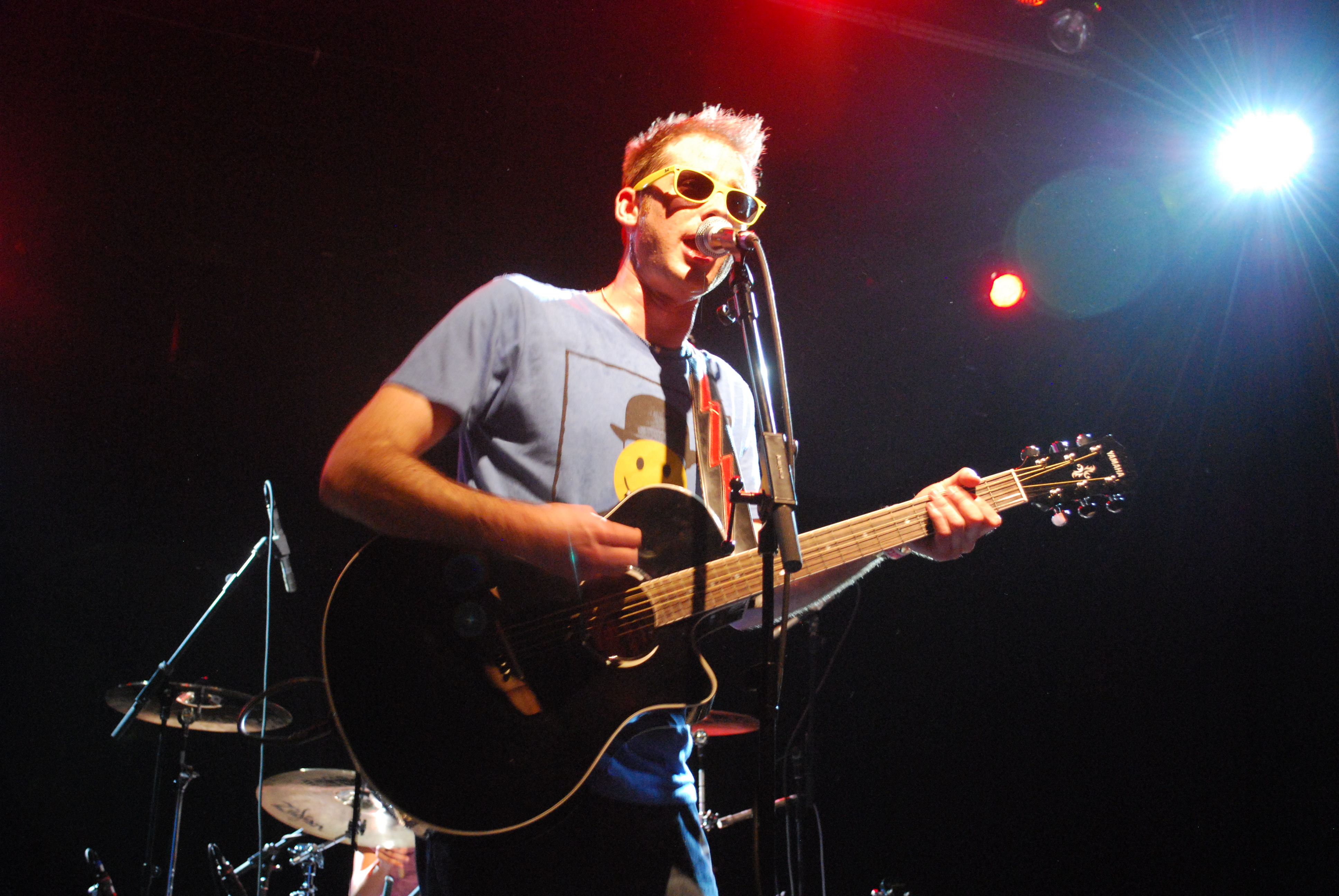 Nice Peter performing at the 2011 DigiTour